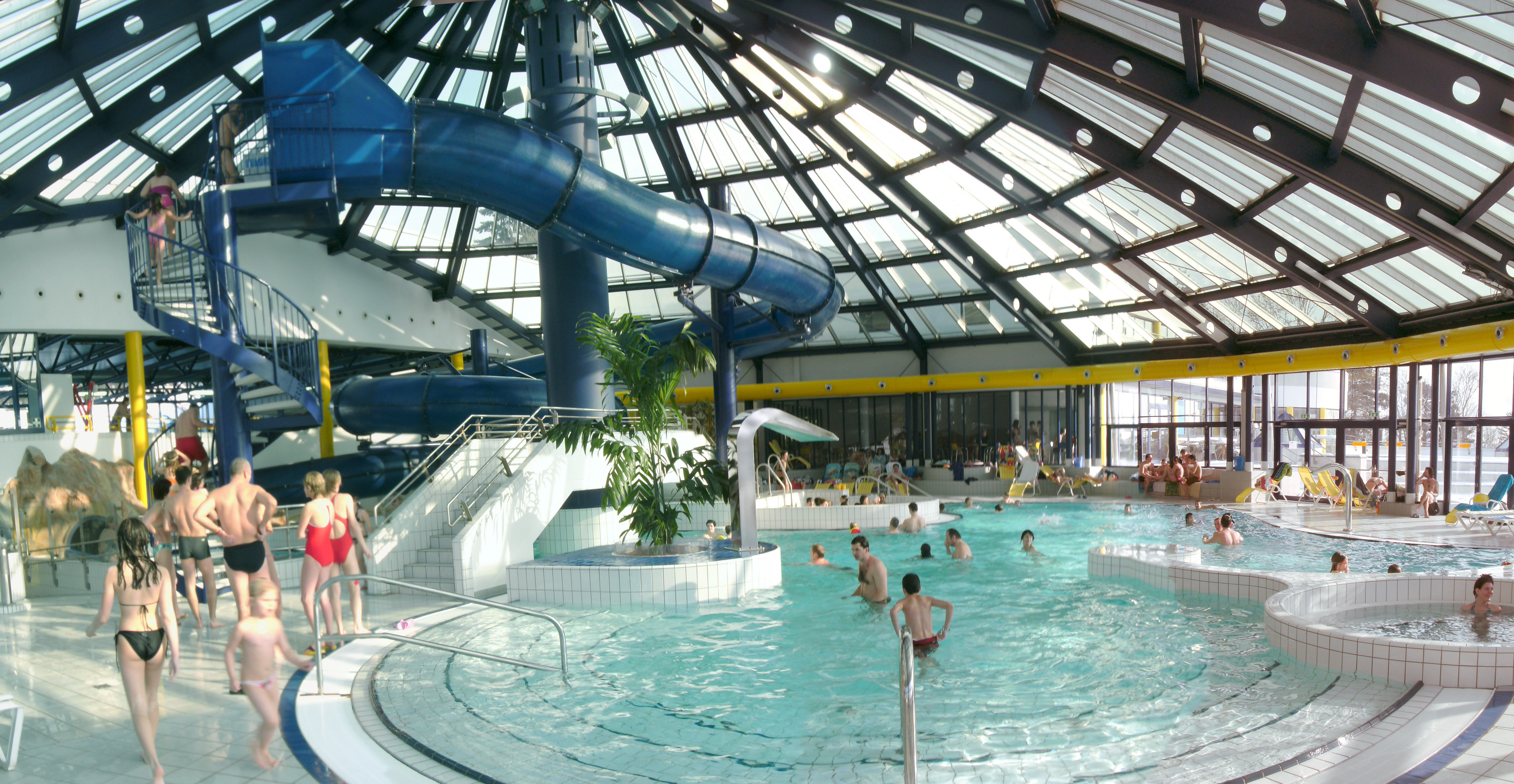 Huetteldorf indoor swimming pool, Vienna's 14th district